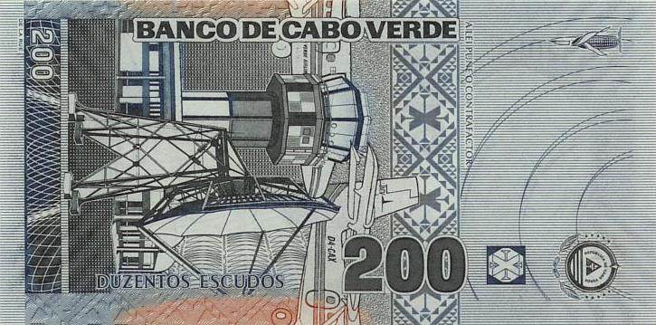 Cape-verdean 2005 200CVE note - back